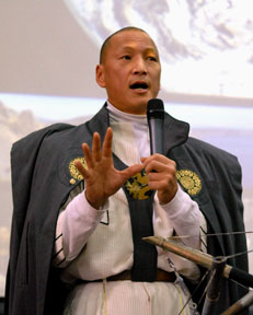 This is a snapshot that I took of Eugene Tsui giving a public lecture, with his permission. I submit it to the public domain.